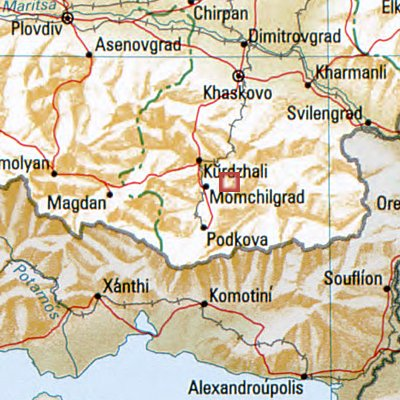 Bulgaria 1994 CIA map, city: part of the map Bulgaria_1994_CIA_map.jpg This image is in the public domain because it contains materials that originally came from the United States Central Intelligence Agency's World Factbook.